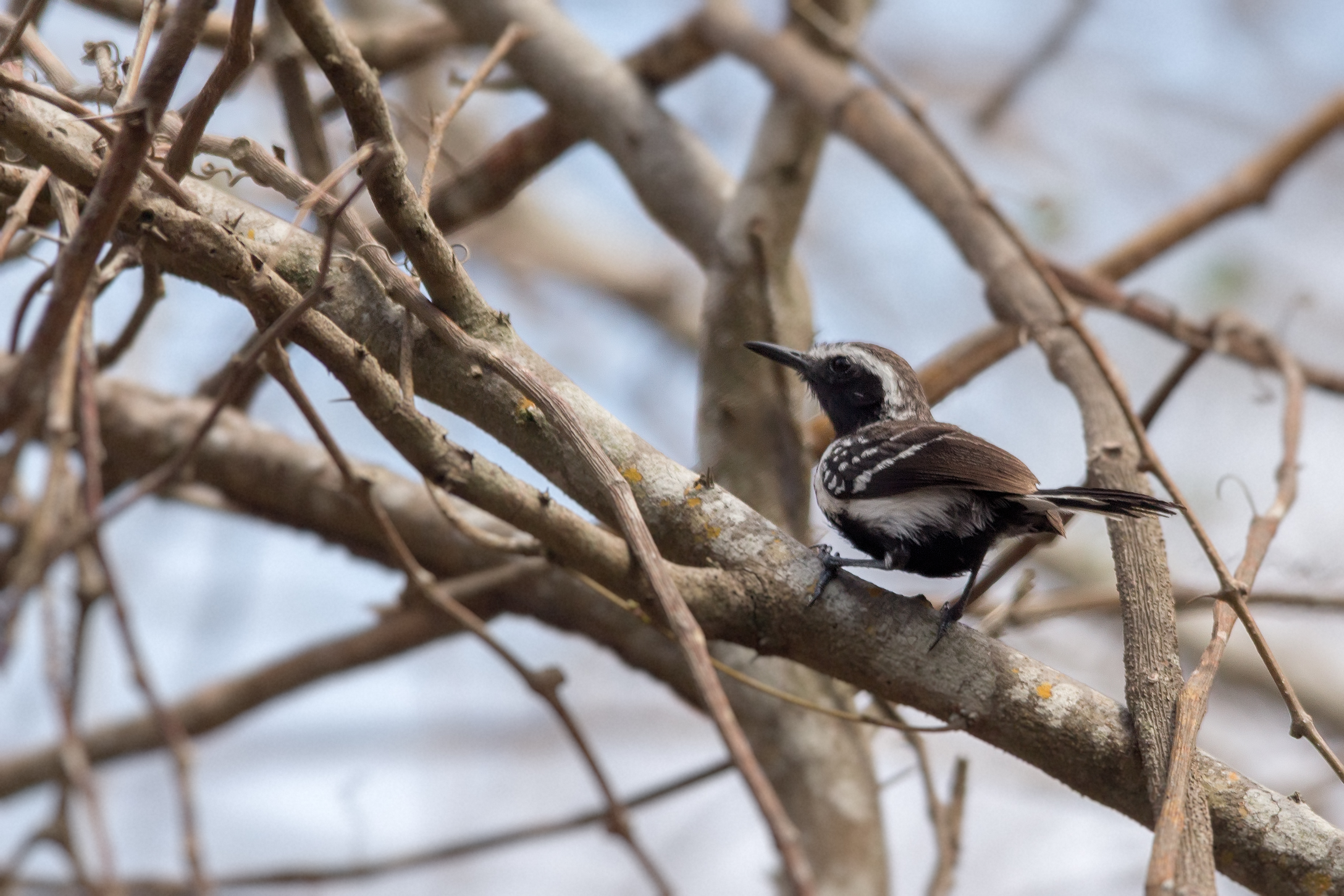 Northern White-fringed Antwren Formicivora intermedia, San Jose, Falcon, Venezuela